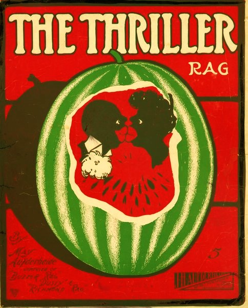 The Thriller Rag, 1909